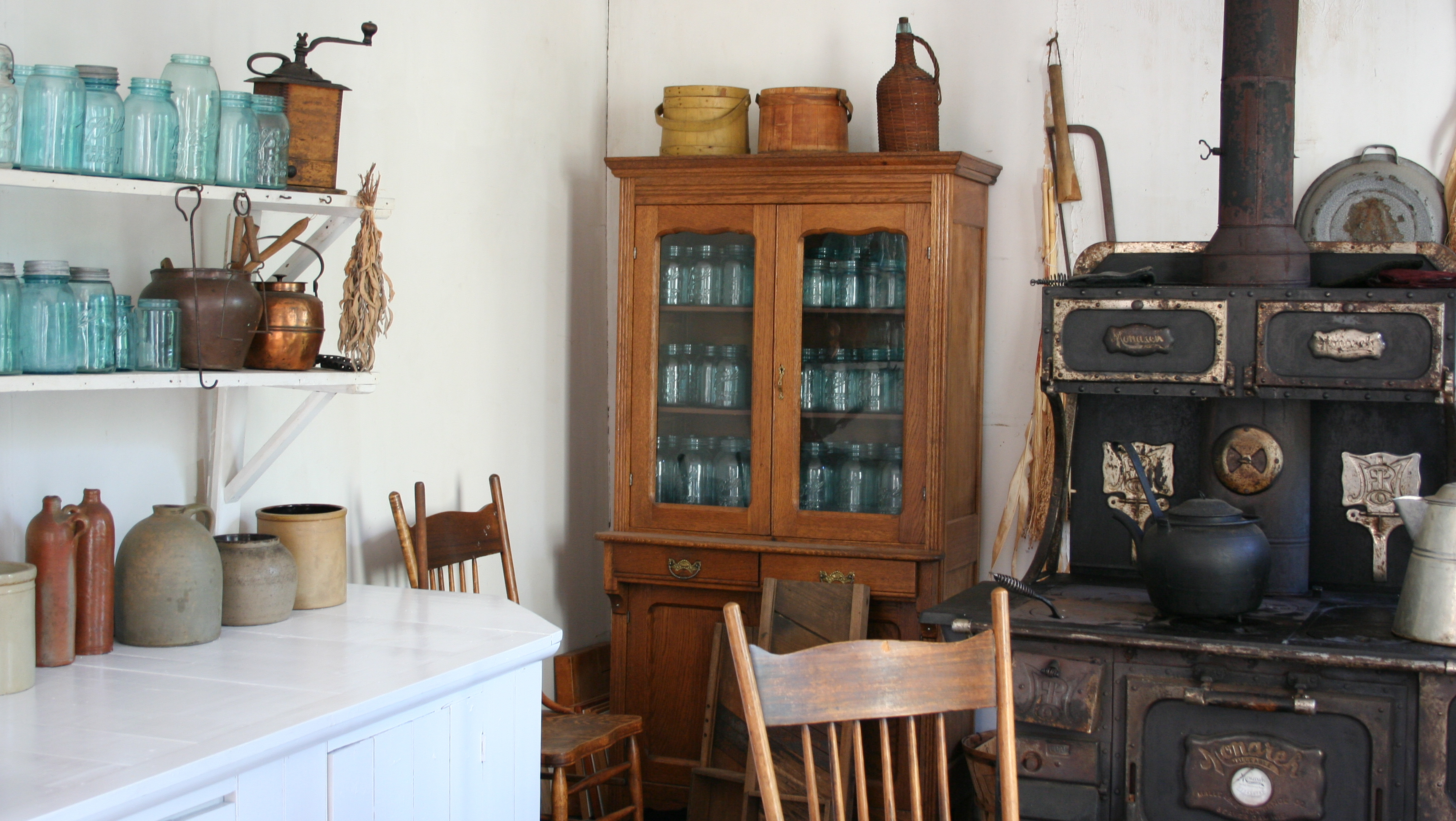 Kitchen at the Villa Louis Mansion on St. Feriole island in Prairie du Chien, Wisconsin